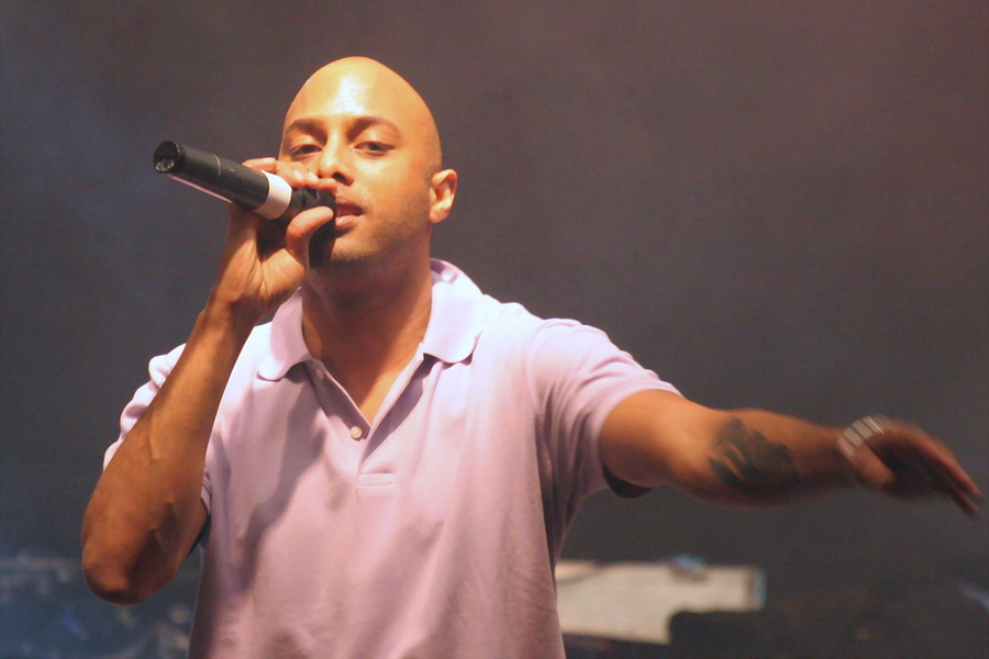 Jay_Delano on stage (concert in Bydgoszcz)